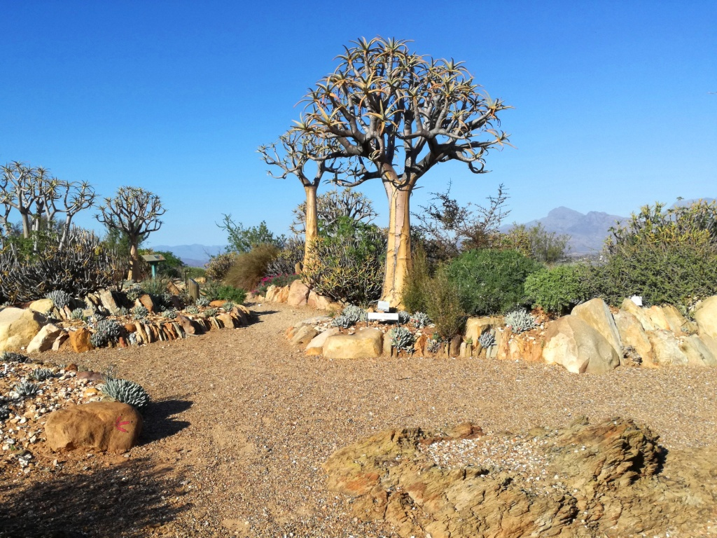 Karoo Desert National Botanical Gardens - quiver trees